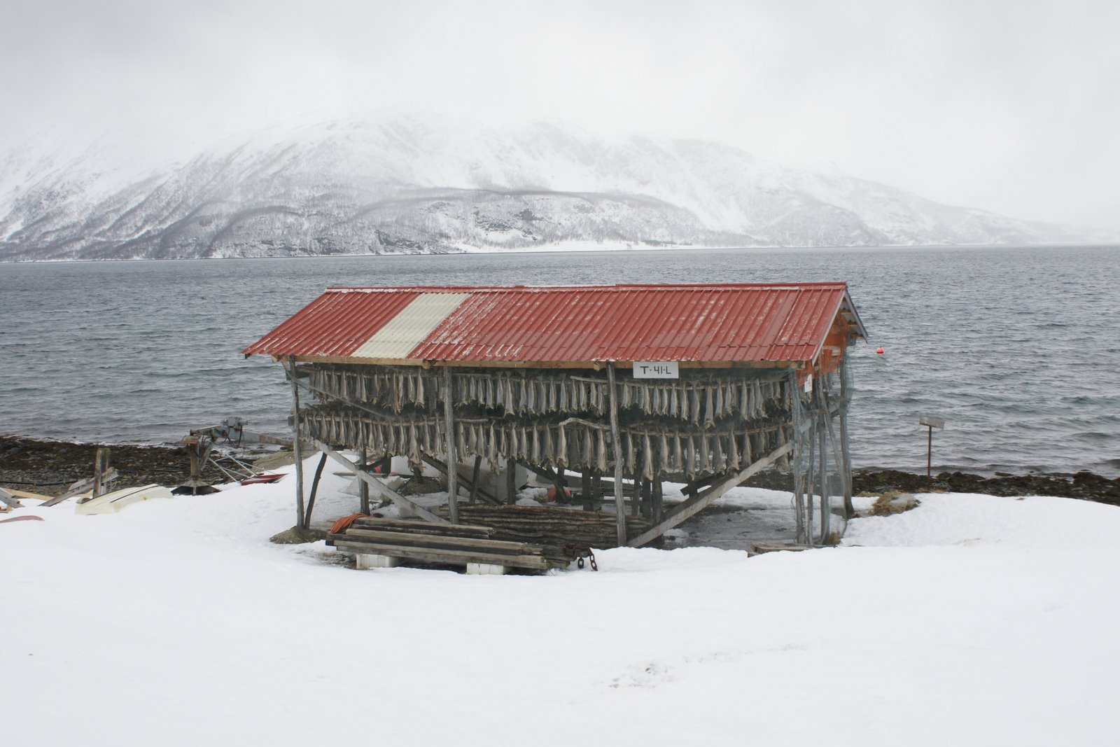 Cod hanged for drying in Lyngen fyord, north Norway.